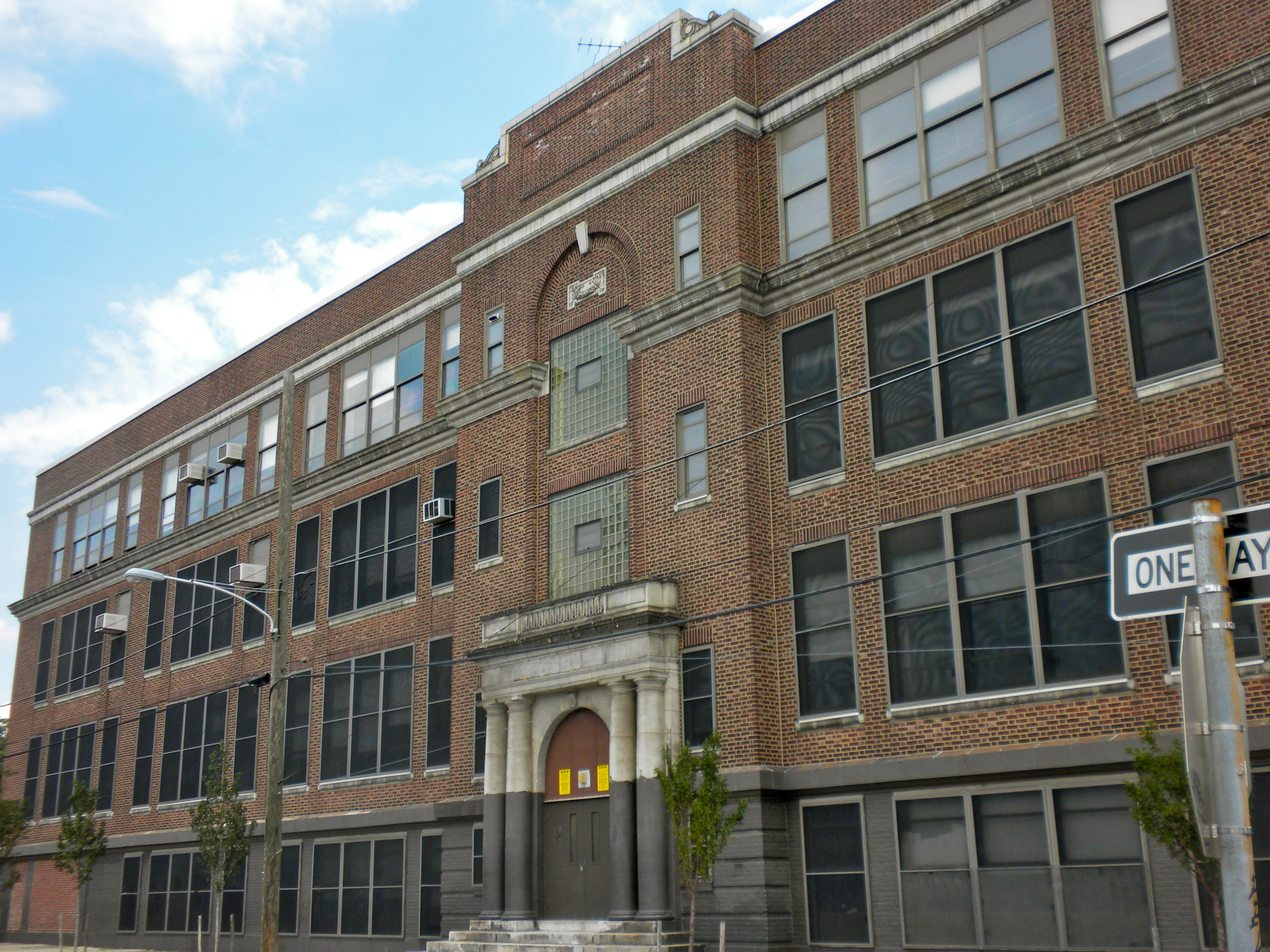 Joseph C. Ferguson School in Philadelphia, on the NRHP since November 18, 1988. At 2000–2046 North 7th & Norris Sts. in the Templetown neighborhood of North Philly.